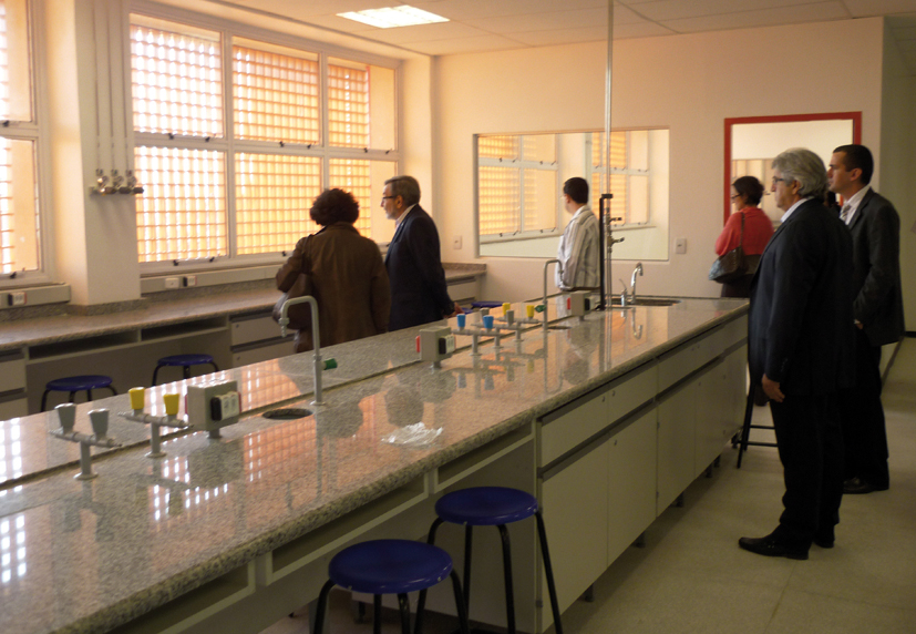 Rector and vice rector of UFABC visit the Alpha Block of UFABC delivered in august 2011 by the builder.